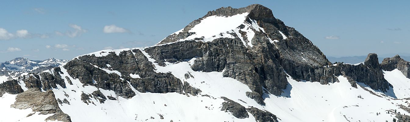 Mount Fitzgerald, in the Ruby Mountains of Nevada, looking southwest from a ridge near Thomas Peak.